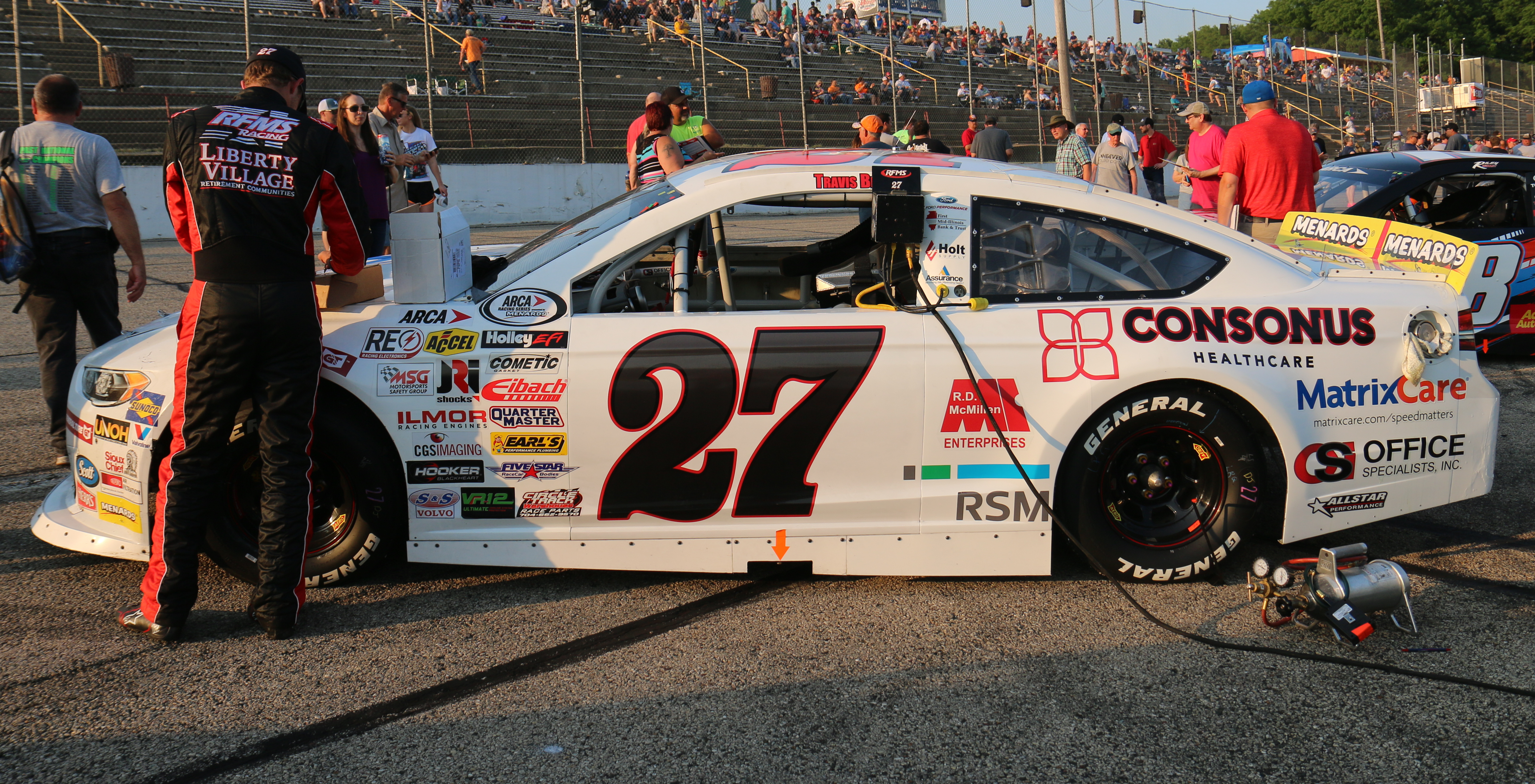 The #27 car of Travis Braden on display at the 2018 ARCA race at Madison International Speedway.